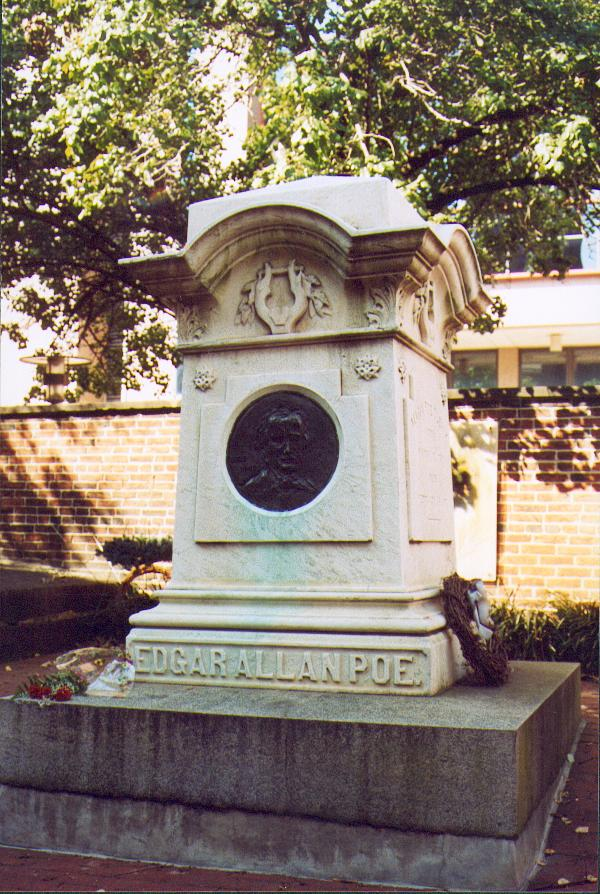 Edgar Allan Poe's grave, Baltimore Maryland